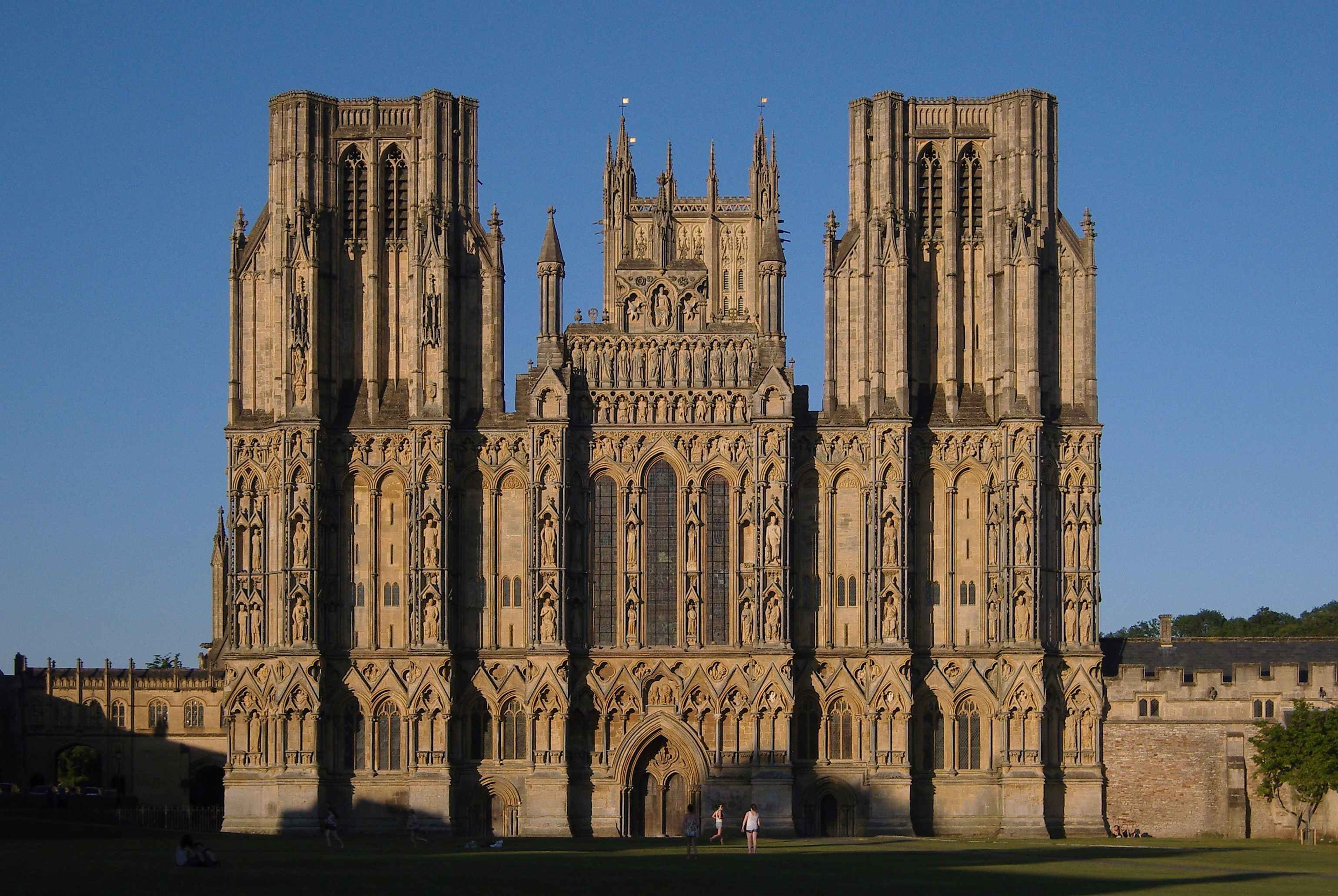 Cathedral in Wells, South England